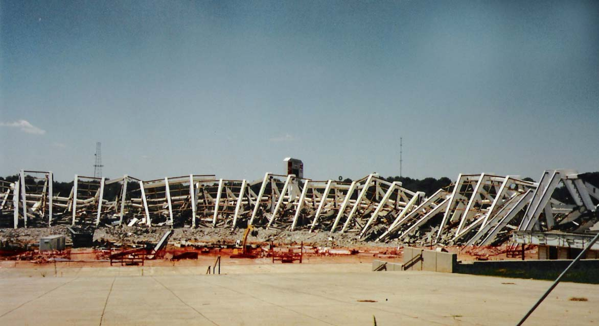 Demolition of Atlanta-Fulton County Stadium to make way for Turner Field